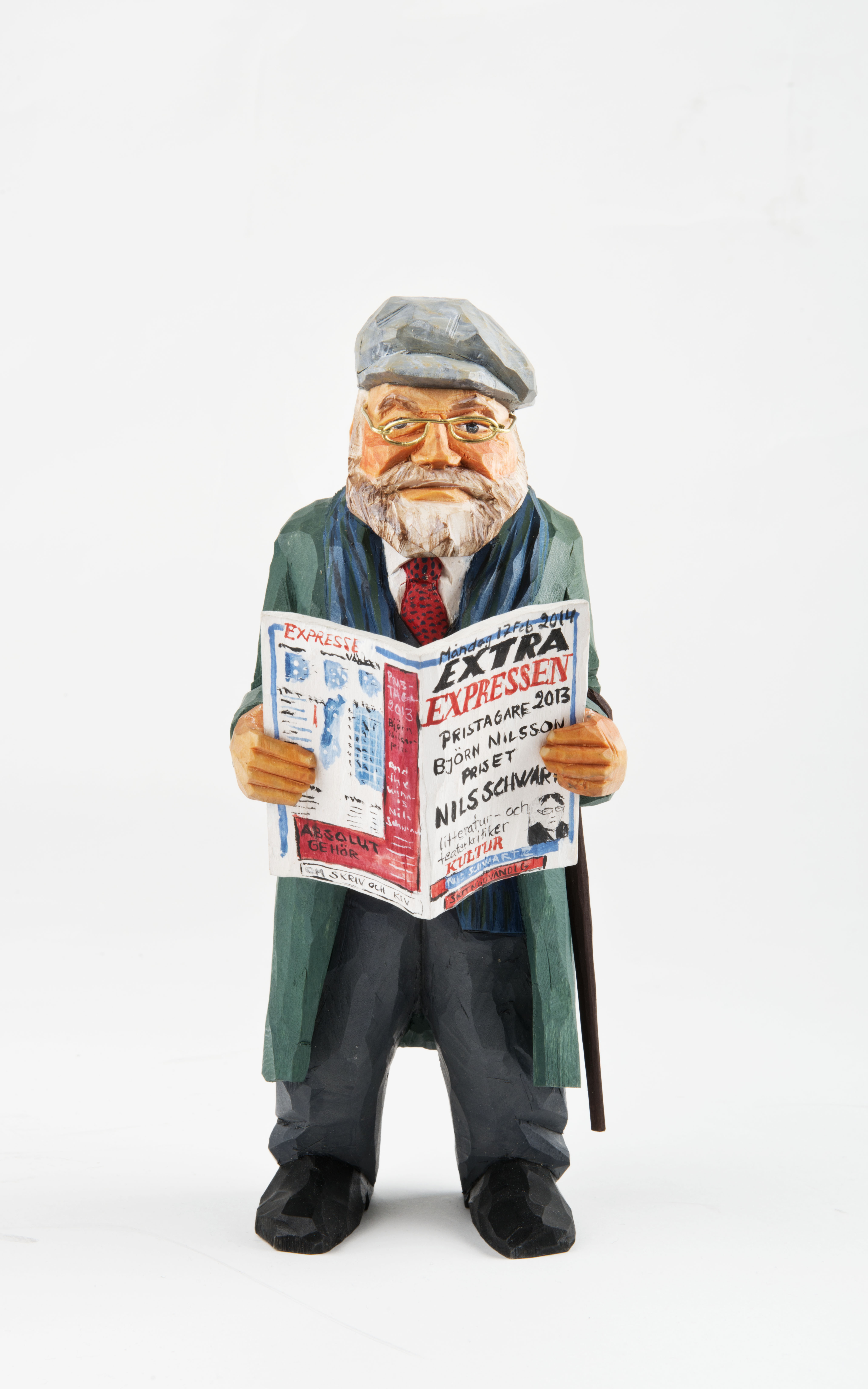 Expressens Björn Nilsson-pris för god kulturjournalistik. Fotograf: Theo Elias Lundgren